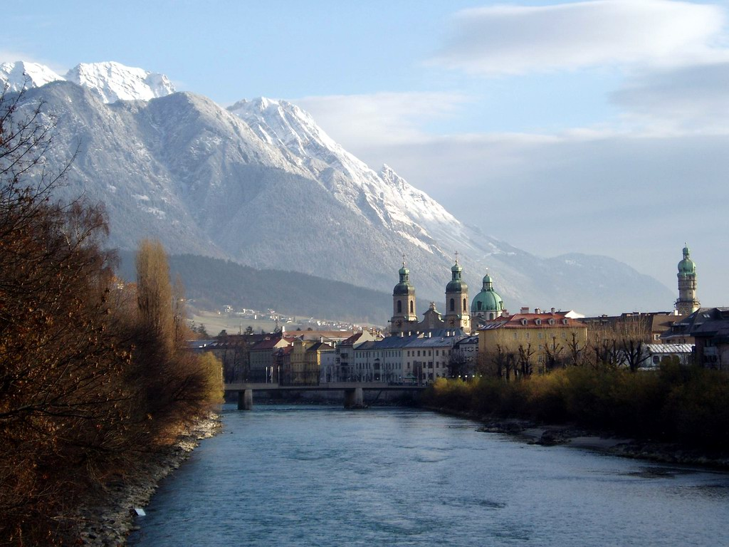 It is a landscape in the one that just of seeing it me resembles the place wherefrom I could aver born and enjoyed my life